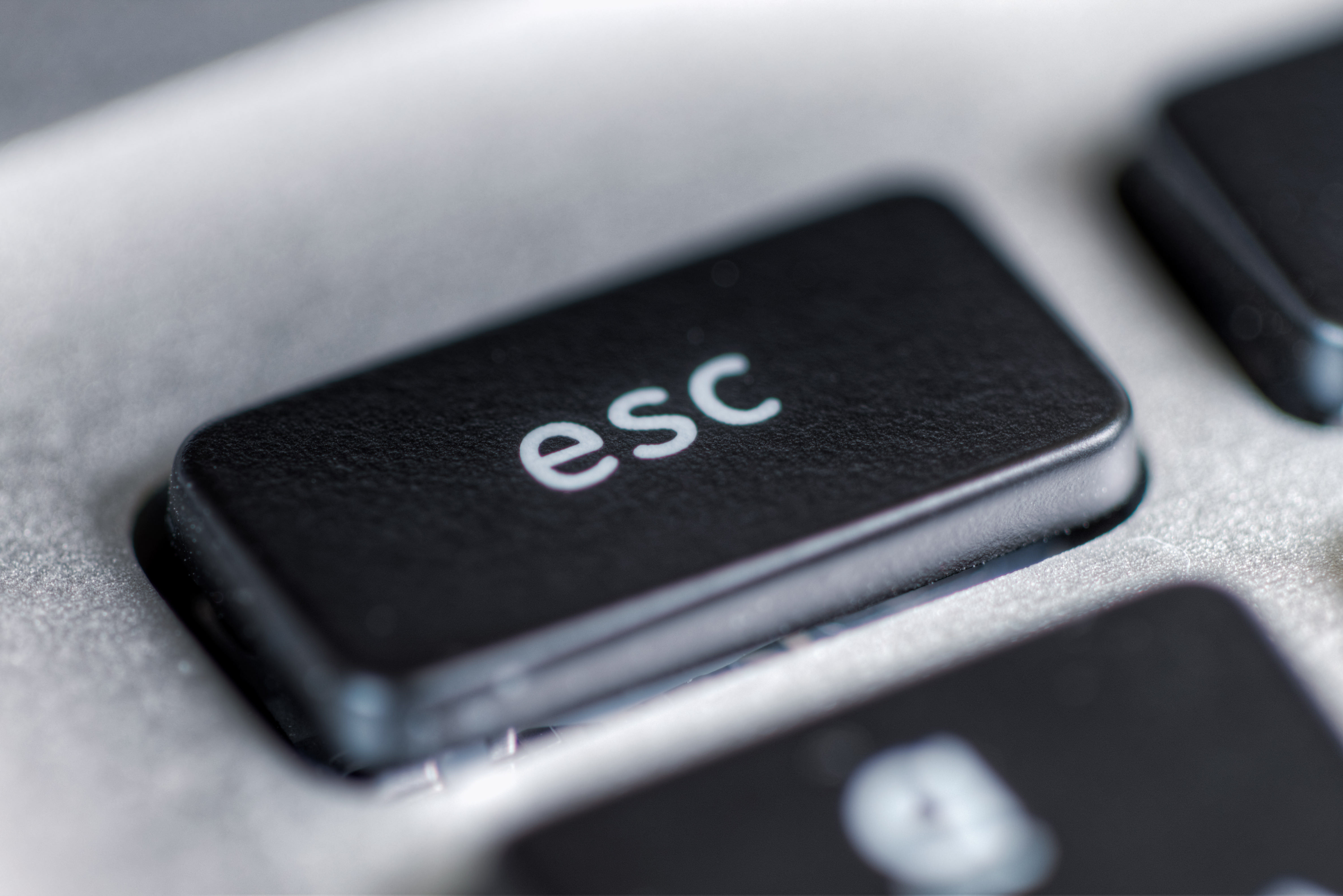 Escape button on a MacBook Pro keyboard.